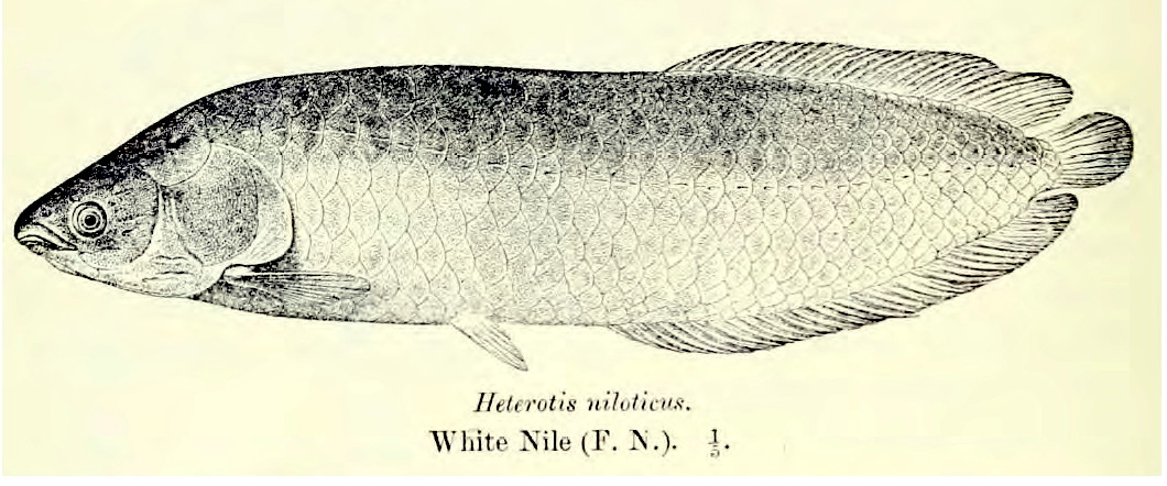 African arowana, Heterotis niloticus